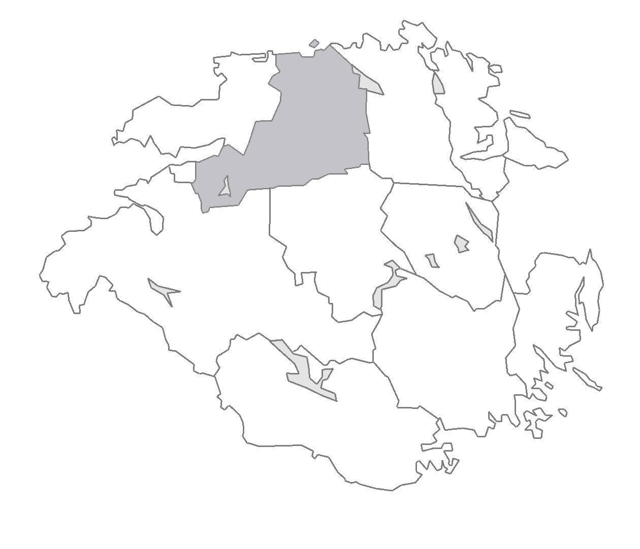 Map describing the location of Österrekarne Hundred in Södermanland County, Sweden.